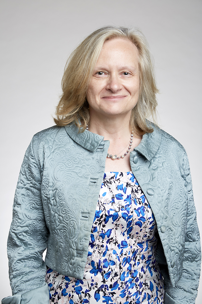 (Edith) Yvonne Jones (born 1960) FRS FMedSci is a British scientist known for her research on the molecular biology of cell surface receptors and signalling complexes. Attribution: The Royal Society